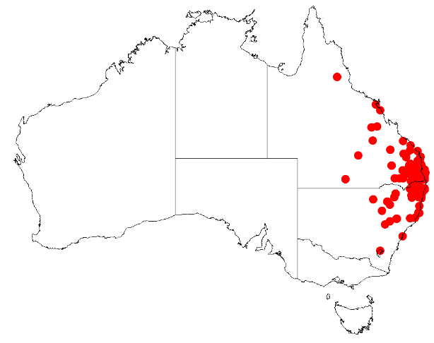 Acacia concurrens Occurrence data from Australasia Virtual Herbarium downloaded from on 8 December 2018